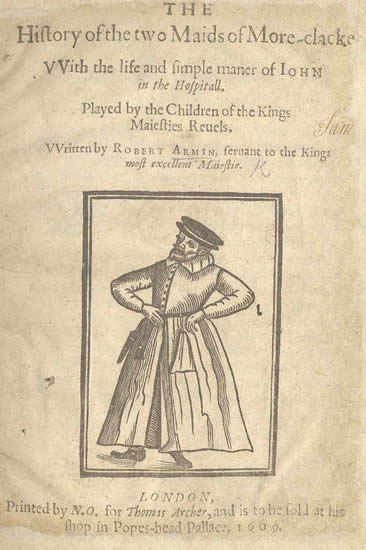 Cover of The History of the two Maids of More-Clacke, written by Robert Armin. The man designed on the cover is Armin.